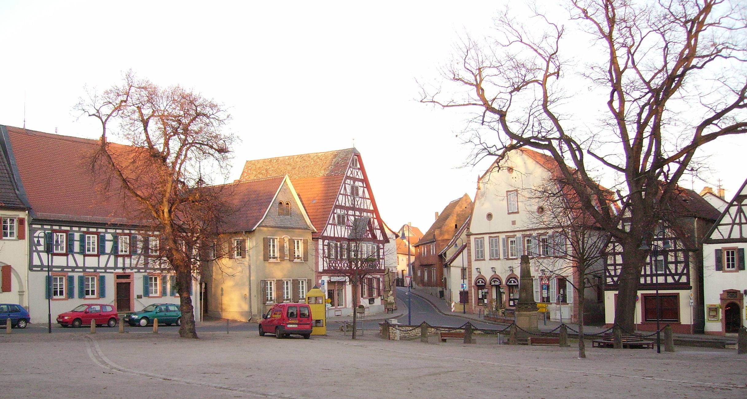 Westhofen in Rhineland-Palatinate, Germany. Houses Am Markt (7-3-1-2-4-6 from left to right).